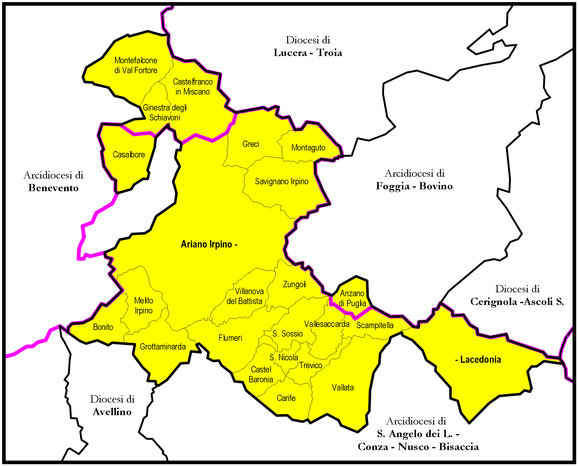 Map of Roman Catholic Diocese of Ariano Irpino - Lacedonia, with its headquartes being in Ariano Irpino, Italy